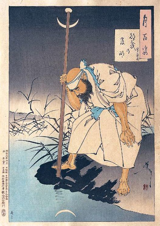 The moon’s invention (Tsuki no hatsumei)